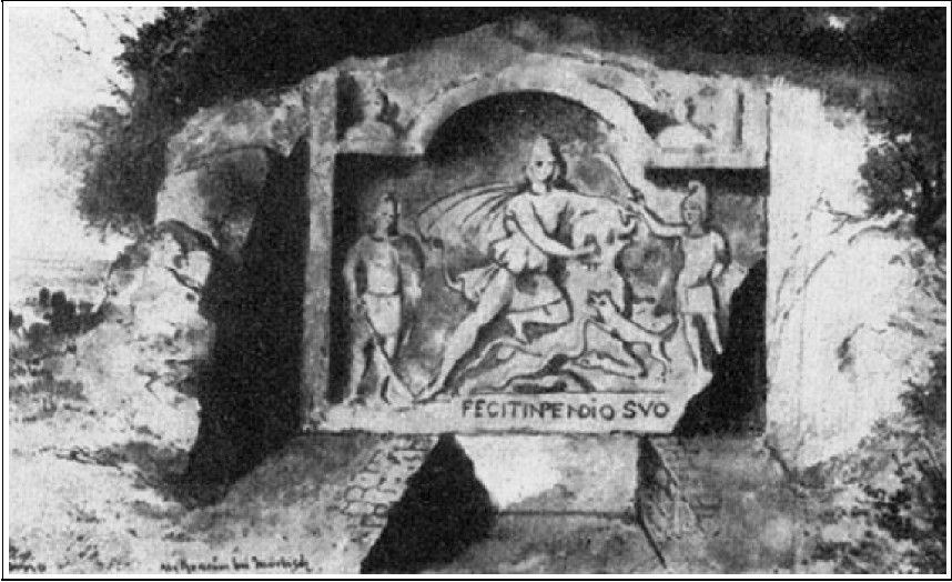 Relief of the tauroctony from the Mitraeum at Fertőrákos (Ferenc Storno’s drawing, 1866)